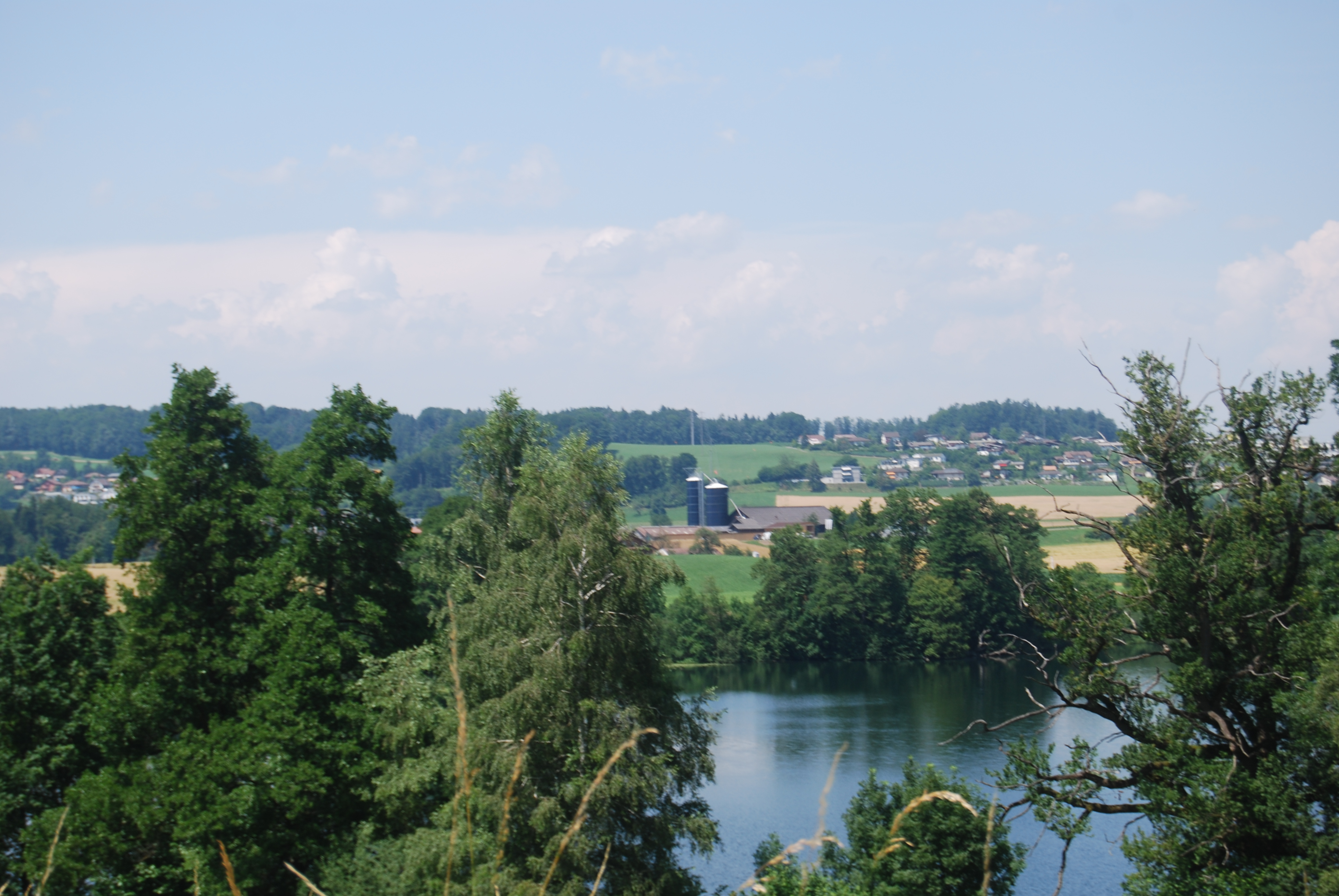 Lake of Mauensee, view to St. Erhard (municipality of Knutwil), canton of Luzern, Switzerland